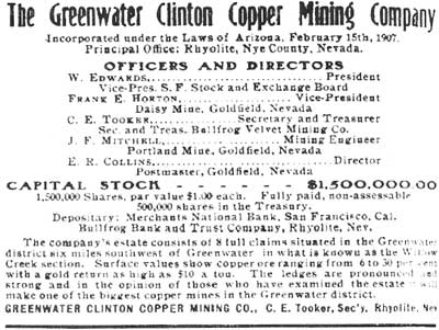 Newspaper article taken from .